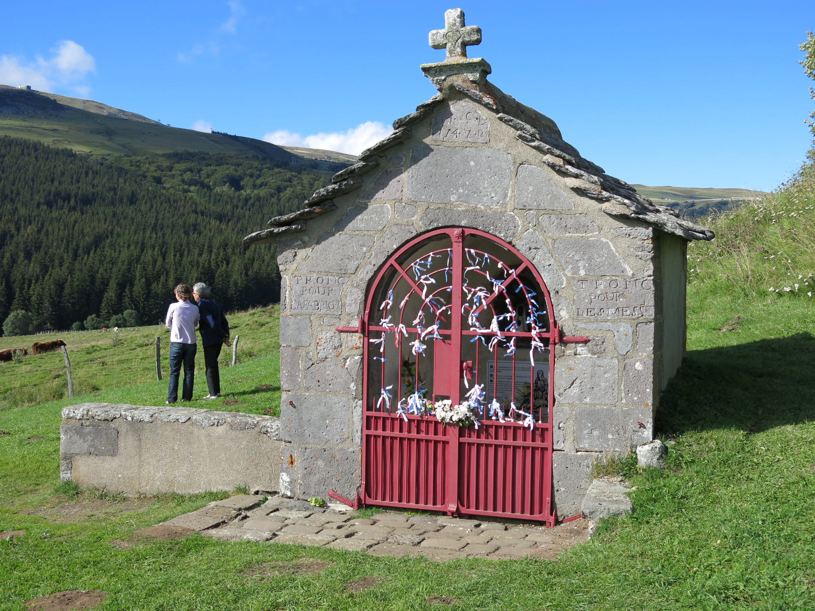 Cabin of the spring of the chapel of Notre-Dame de Vassivière (Puy-de-Dôme, France).